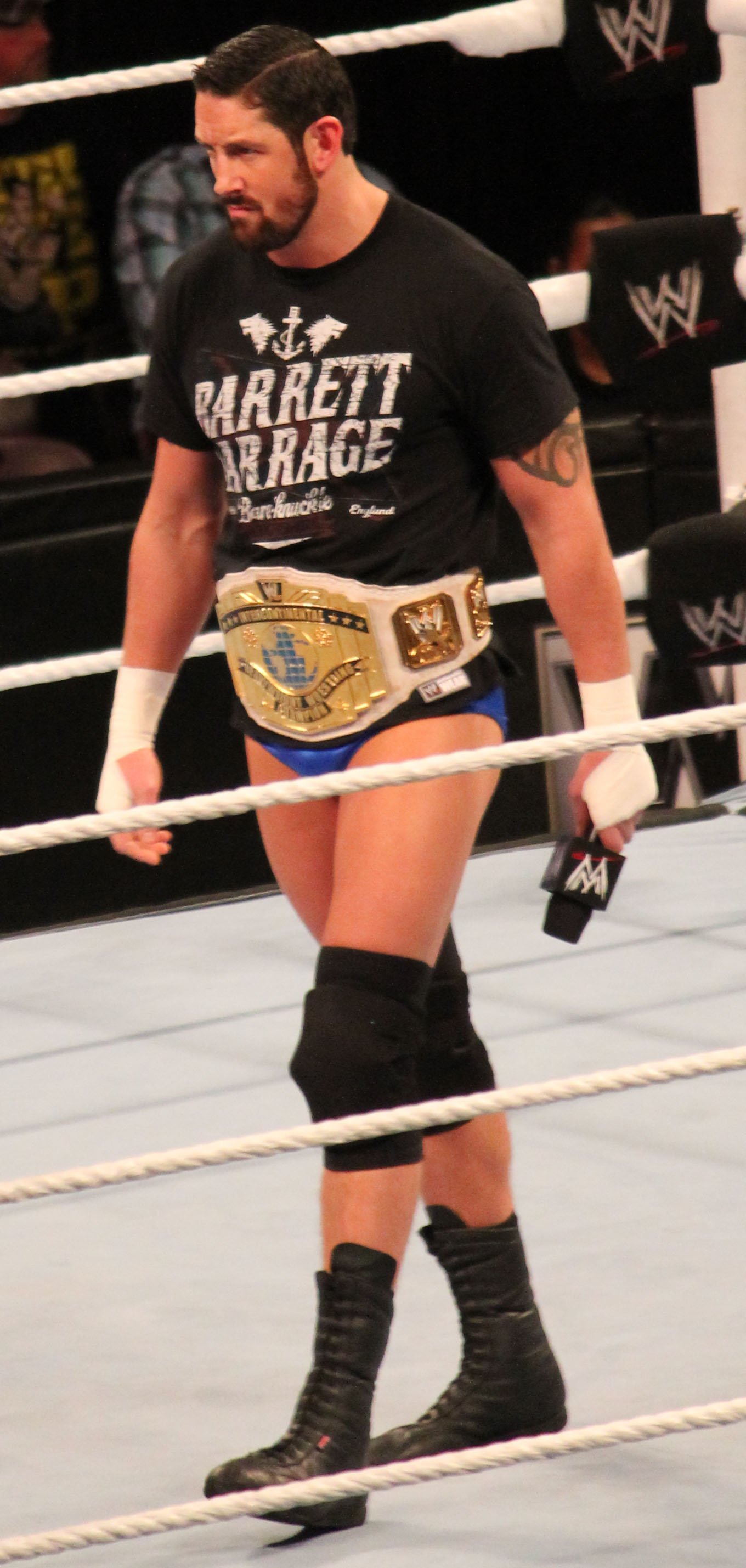 Wade Barrett as the WWE Intercontinental Champion at a WWE Raw television taping on February 18, 2013.